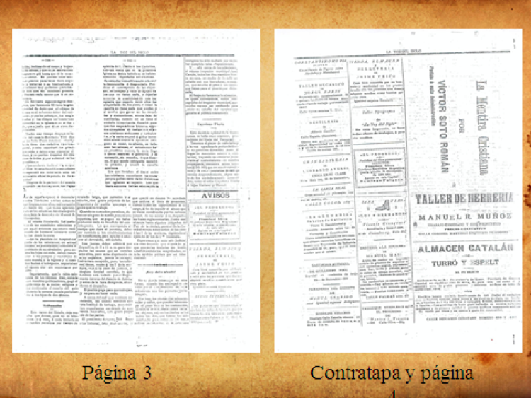 Página 3 y contratapa